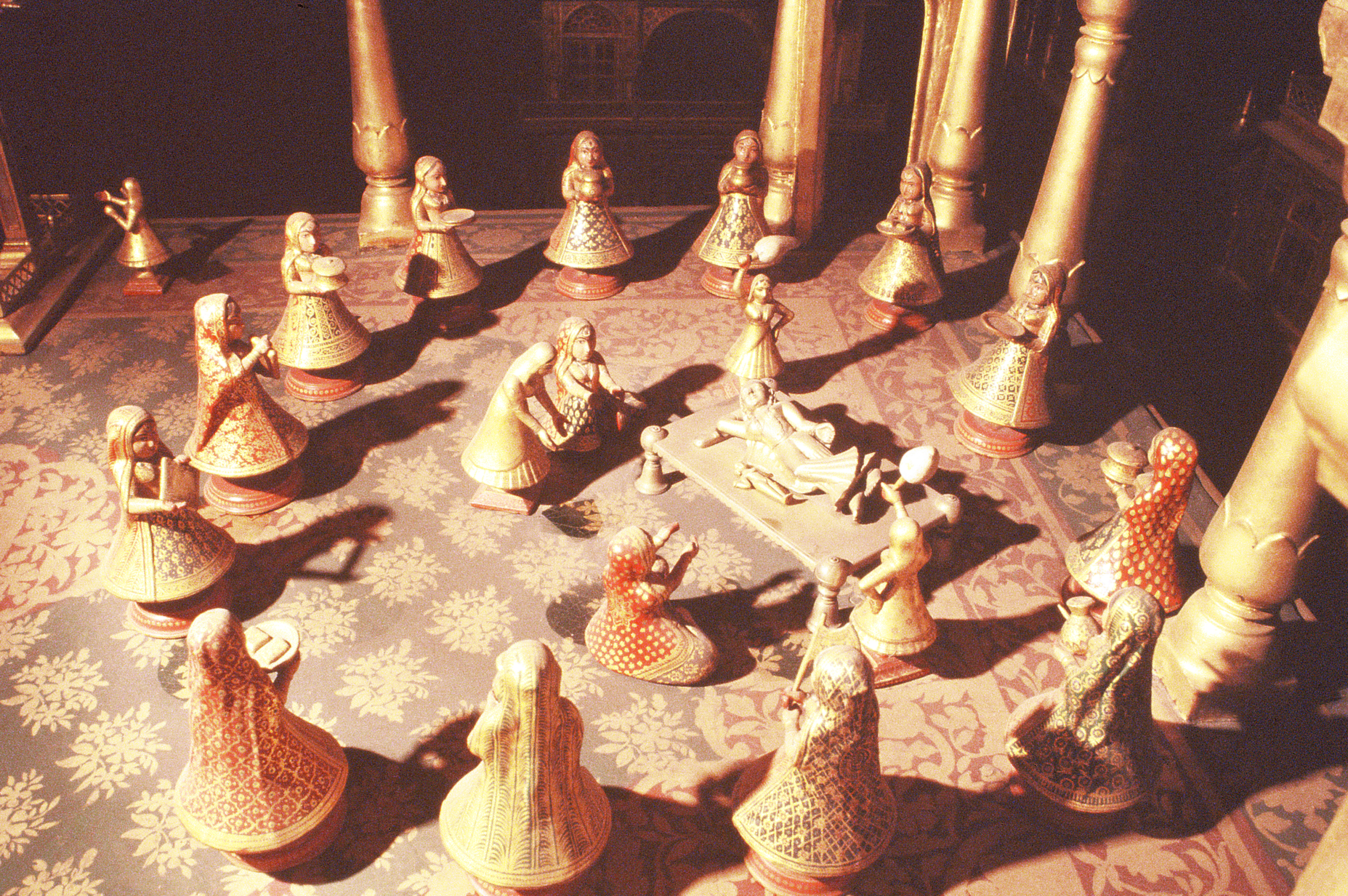 Lord's mother with new born baby